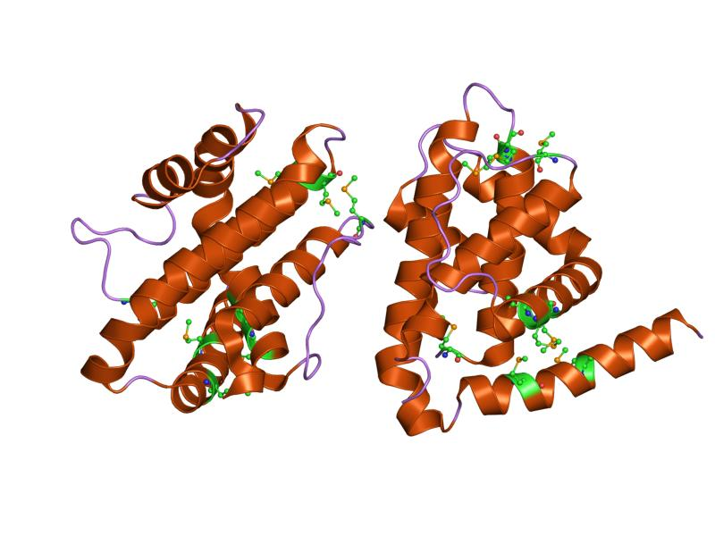 Cartoon representation of the molecular structure of protein registered with 1ohu code.